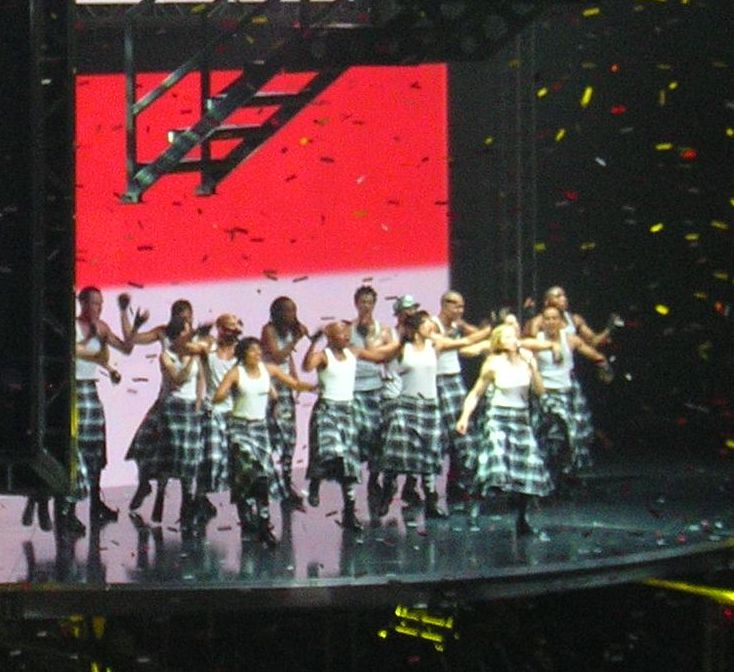 Madonna performing "Holiday"